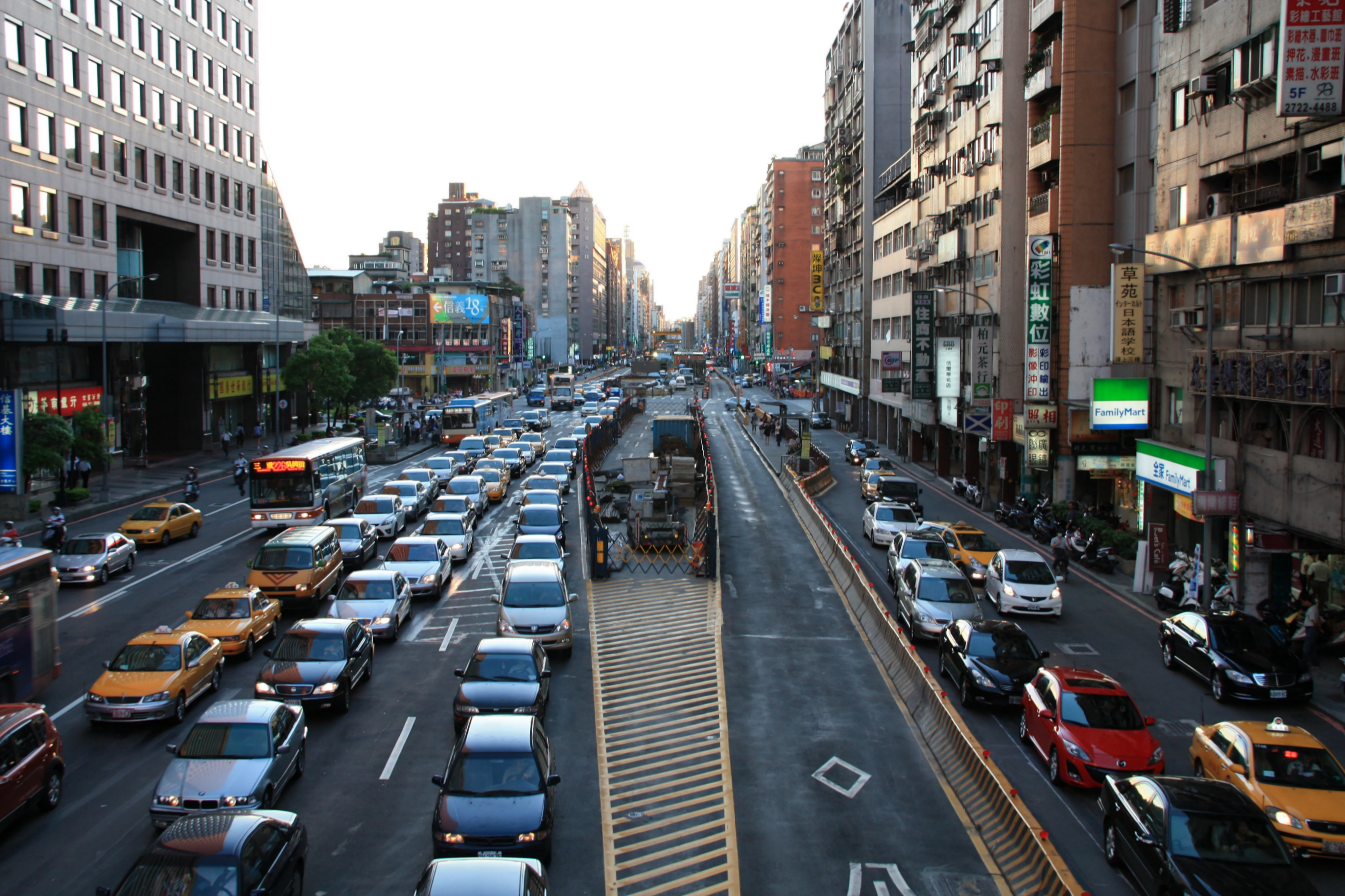 TáiběiXìnyì DistrictXìnYì RdView to WestConstruction site for Táiběi Metro, XìnYì line